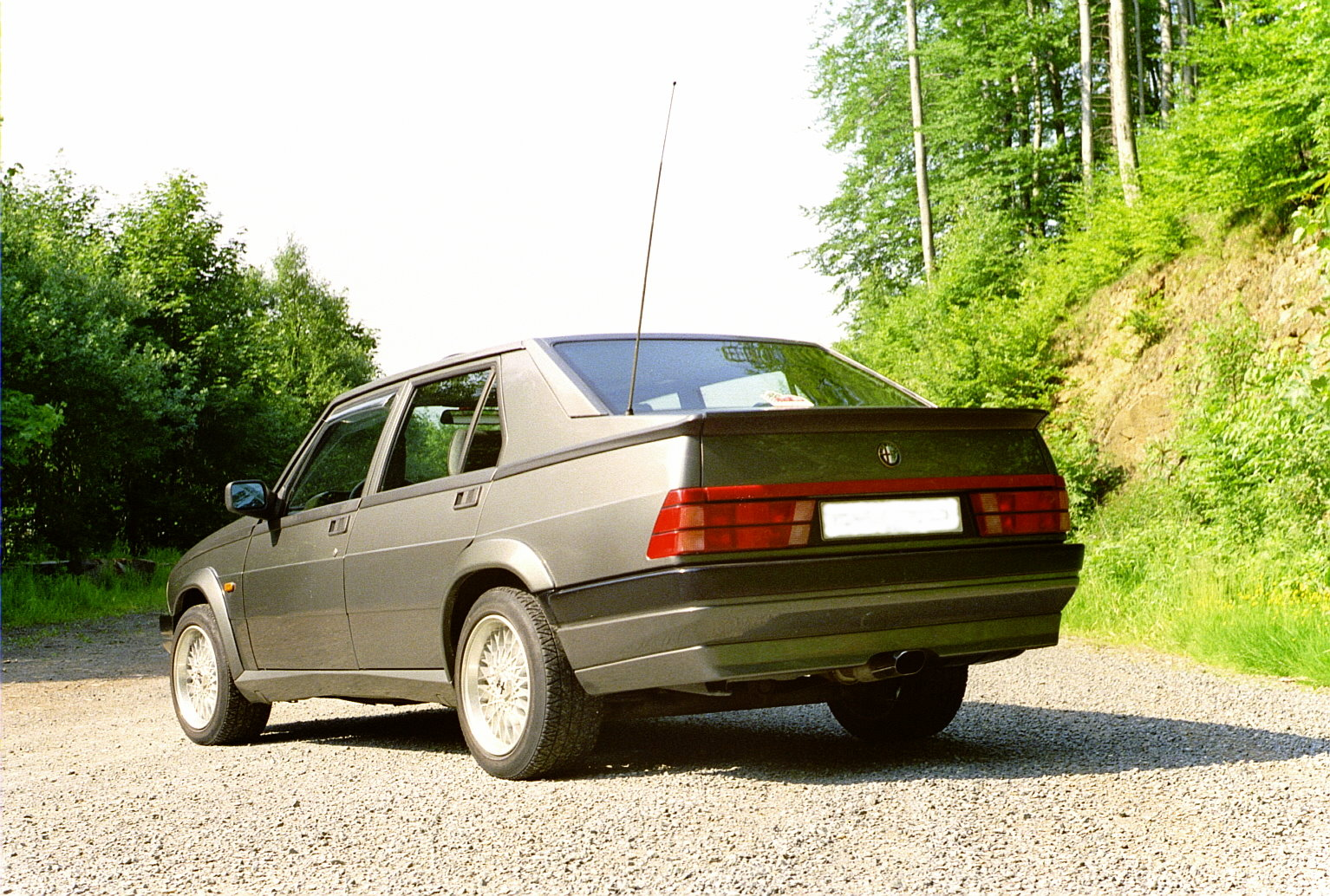 Alfa 75